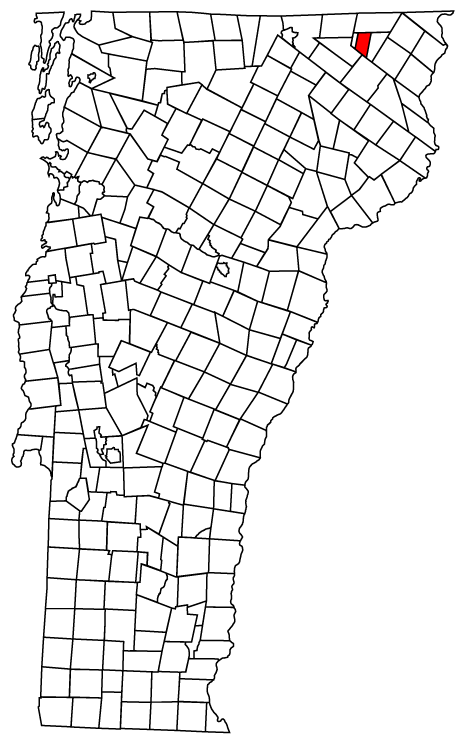 Map of Vermont towns with Warrens Gore highlighted